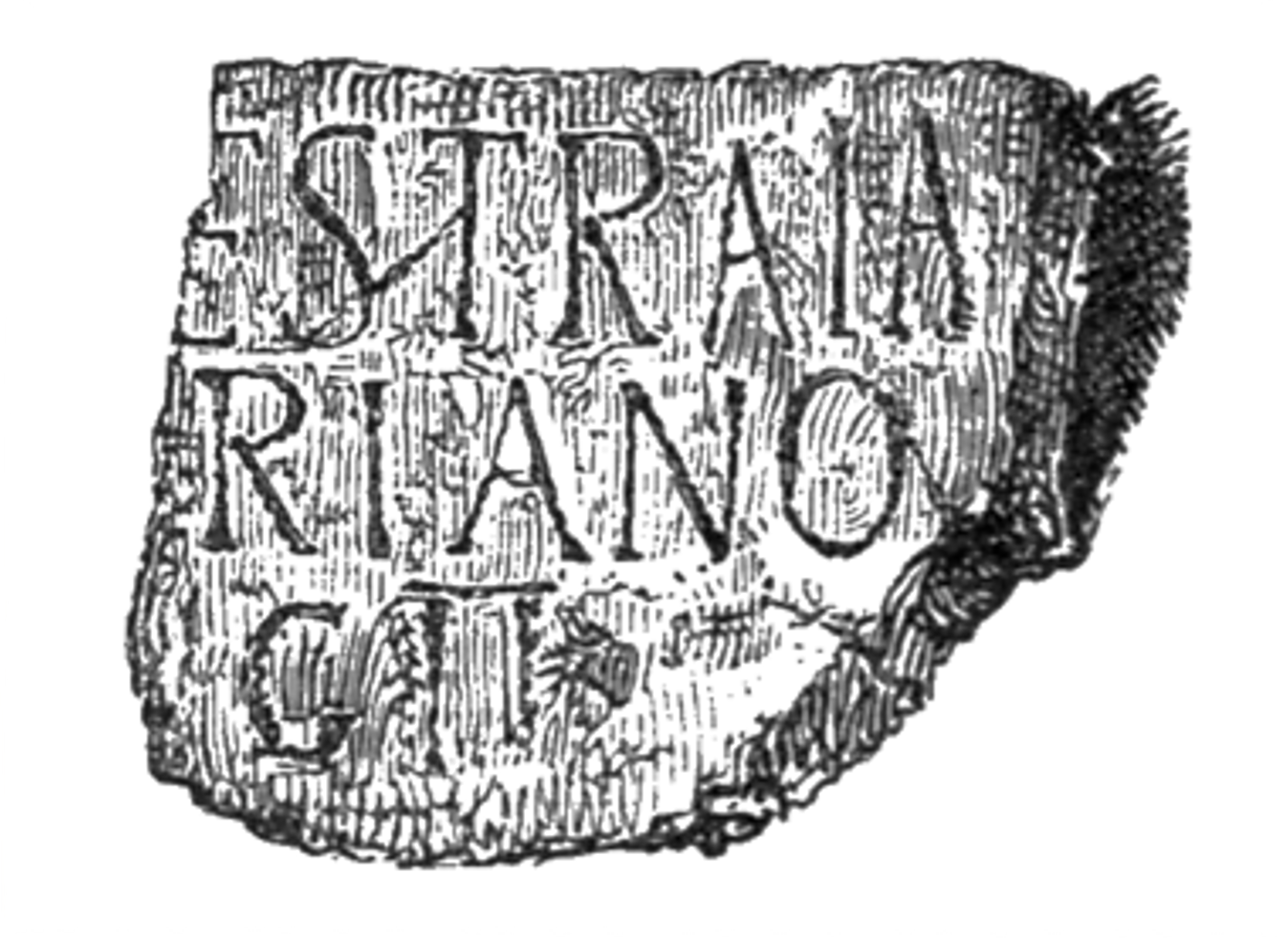 Fragmentary dedication-slab of the Legio II Augusta, find before 1840 at Vindolanda. Formerly in the Museum of Antiquities, Newcastle upon Tyne now in the Great North Museum: Hancock.